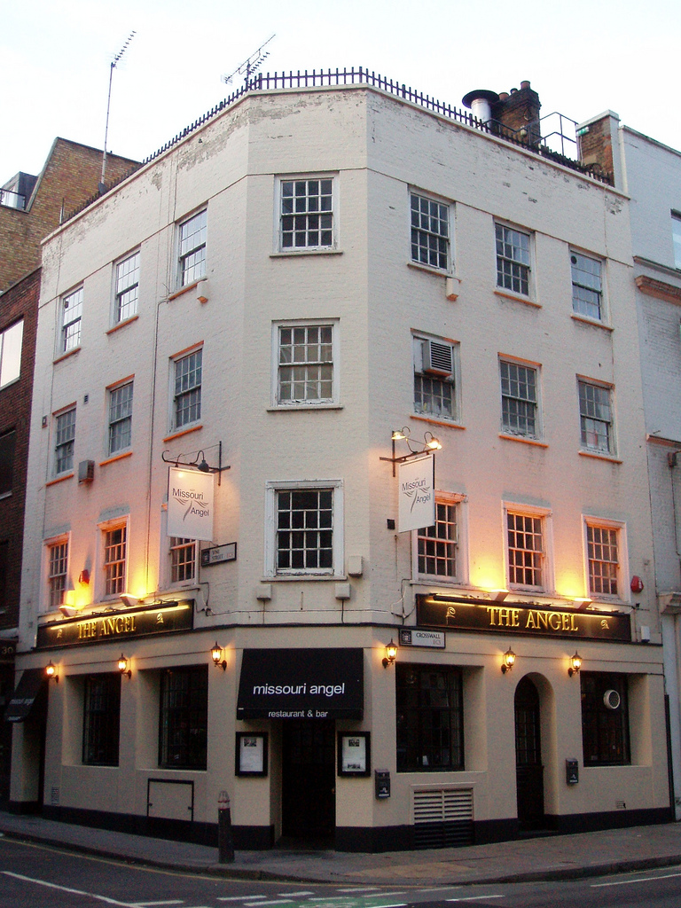 American restaurant Missouri Angel on Crosswall, at its junction with Vine Street, in the City of London Address: 14 Crosswall (formerly John Street). Former Name(s): The Angel. Owner: (website). Camera: Olympus u-miniS,StylusVS License on Flickr (2011-02-12): CC-BY-SA-2.0 Flickr tags: the missouri angel, missouri angel, the angel, angel, ec3n, crosswall, john street, minories